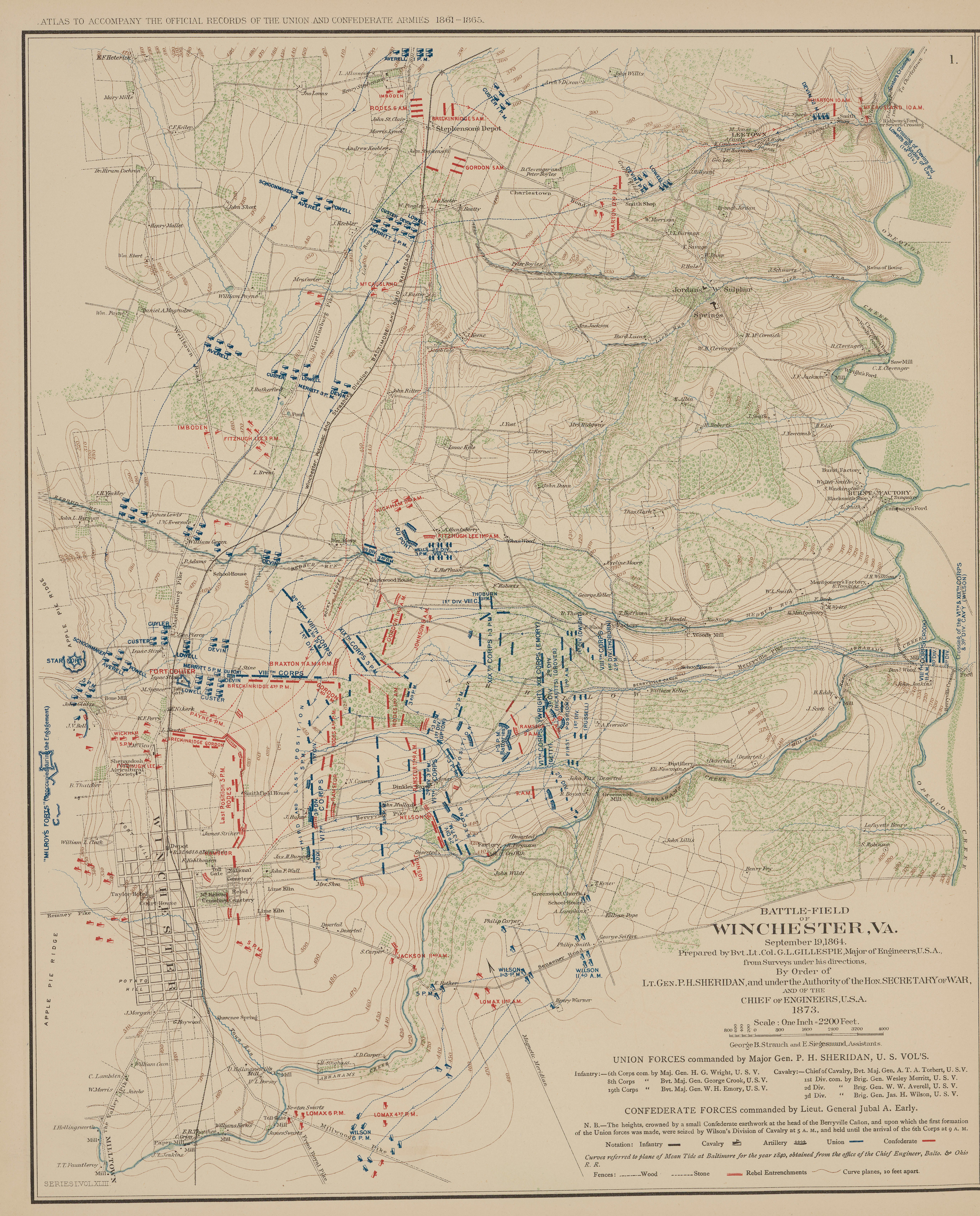 A map of the Third Battle of Winchester.